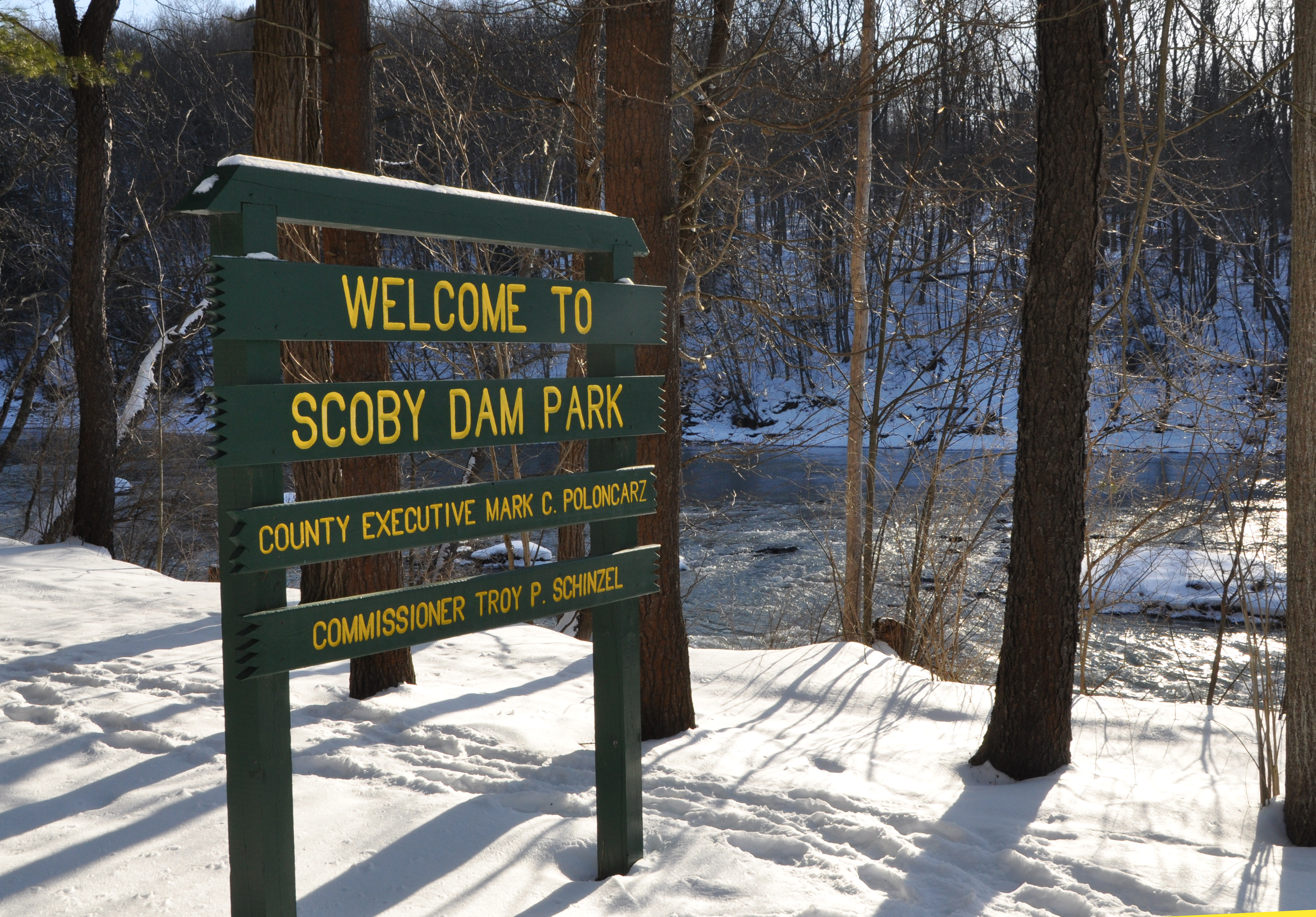 The Springville (Scoby) Dam located in Springville, NY is the focus of a Great Lakes Fishery and Ecosystem Restoration Section 506 study. The purpose of the study at the dam is to evaluate an array of measures which will provide fish passage above the dam to the upstream reaches of Cattaraugus Creek and its tributaries while at the same time prohibiting upstream migration of sea lampreys. The Springville Dam currently blocks all upstream movement of fish to the upper reaches of Cattaraugus Creek and its tributaries.